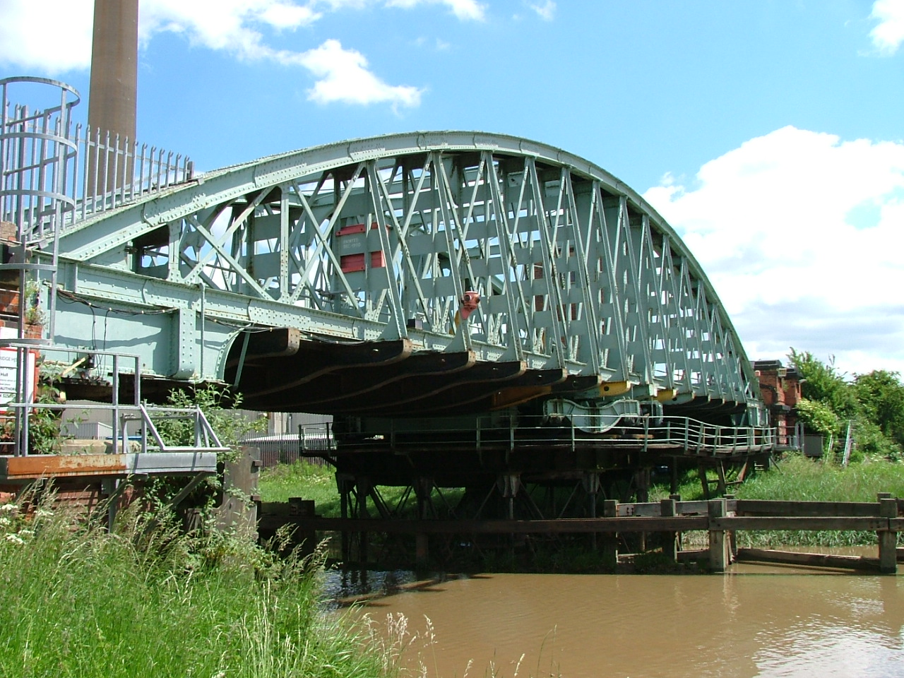 Photo of the former Hull and Barnsley Railway swingbridge in Hull. Photo is my own, taken with full permission.